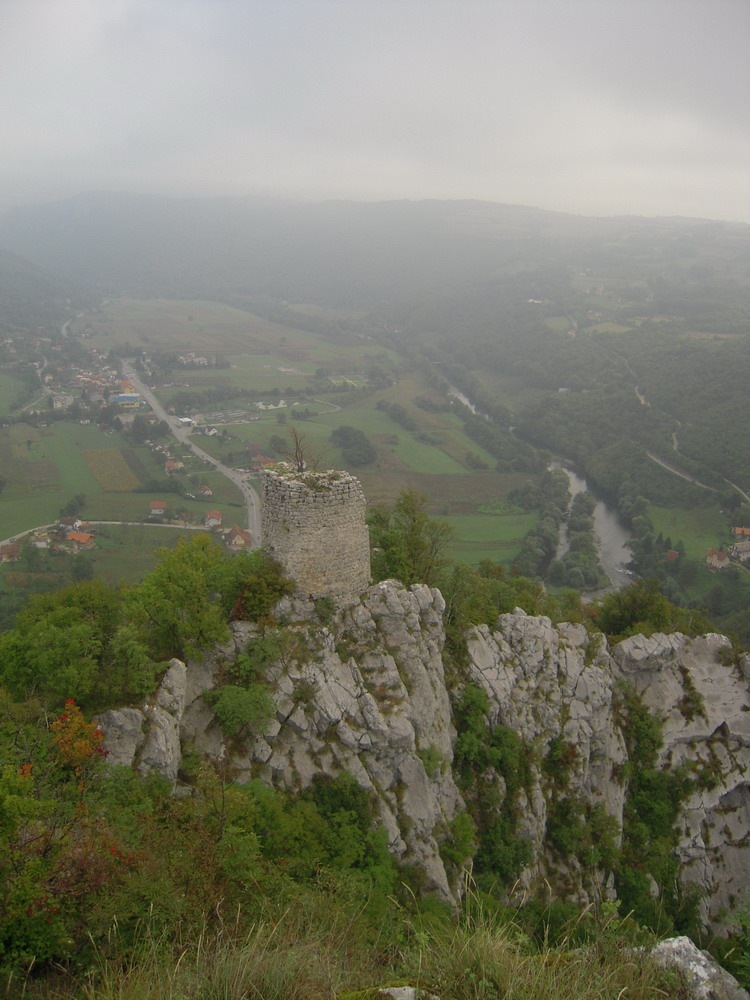 Greben fortress